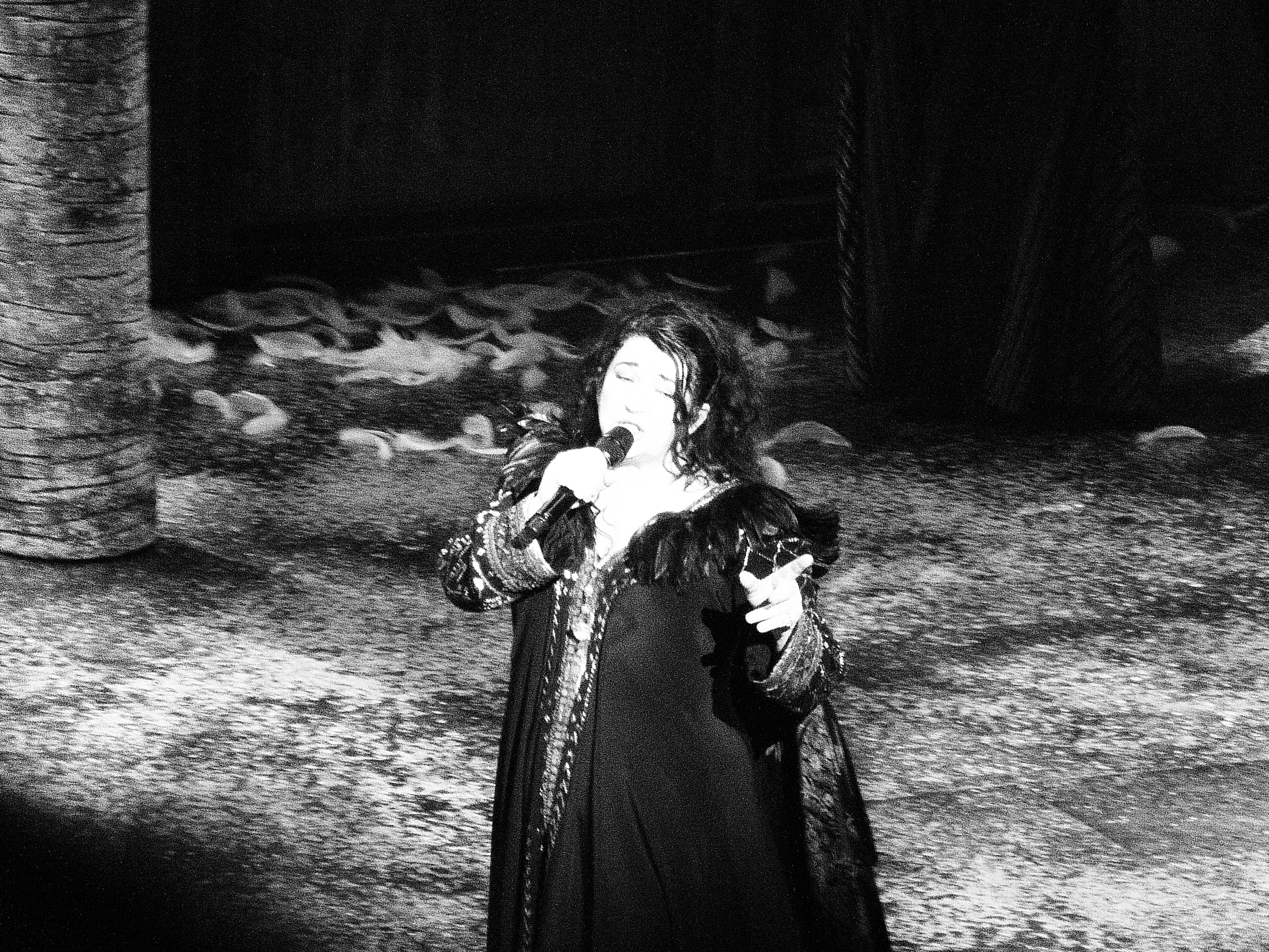 Kate Bush - last song, last night of the tour, best show ever.